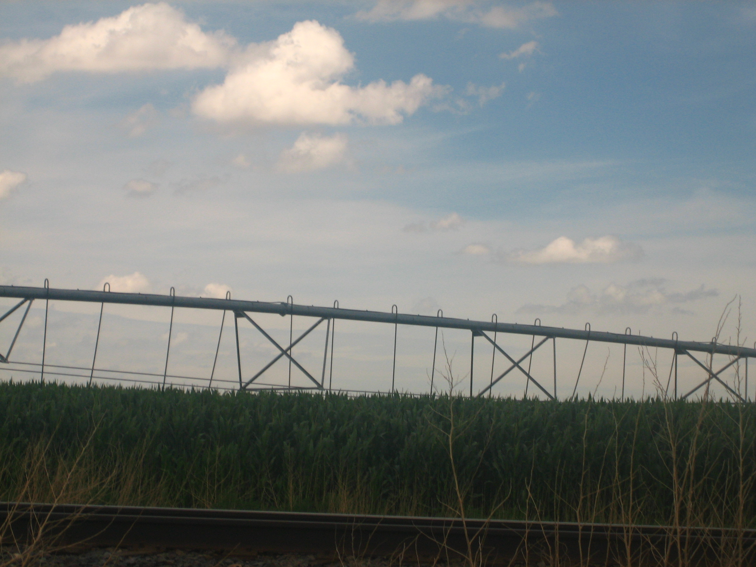 I took photo on July 11, 2008.Billy Hathorn (talk) 04:13, 22 July 2008 (UTC)